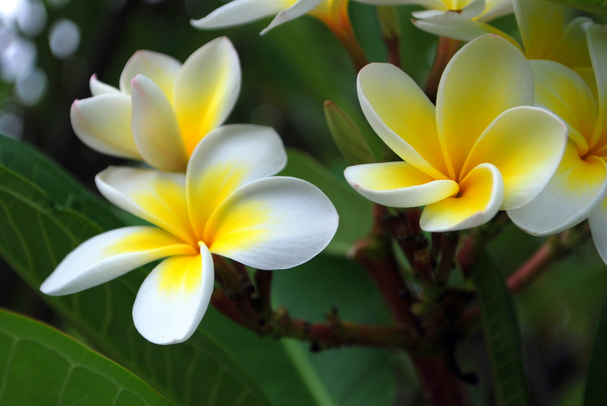 Frangipani (Plumeria) flowers in Perth, Western Australia